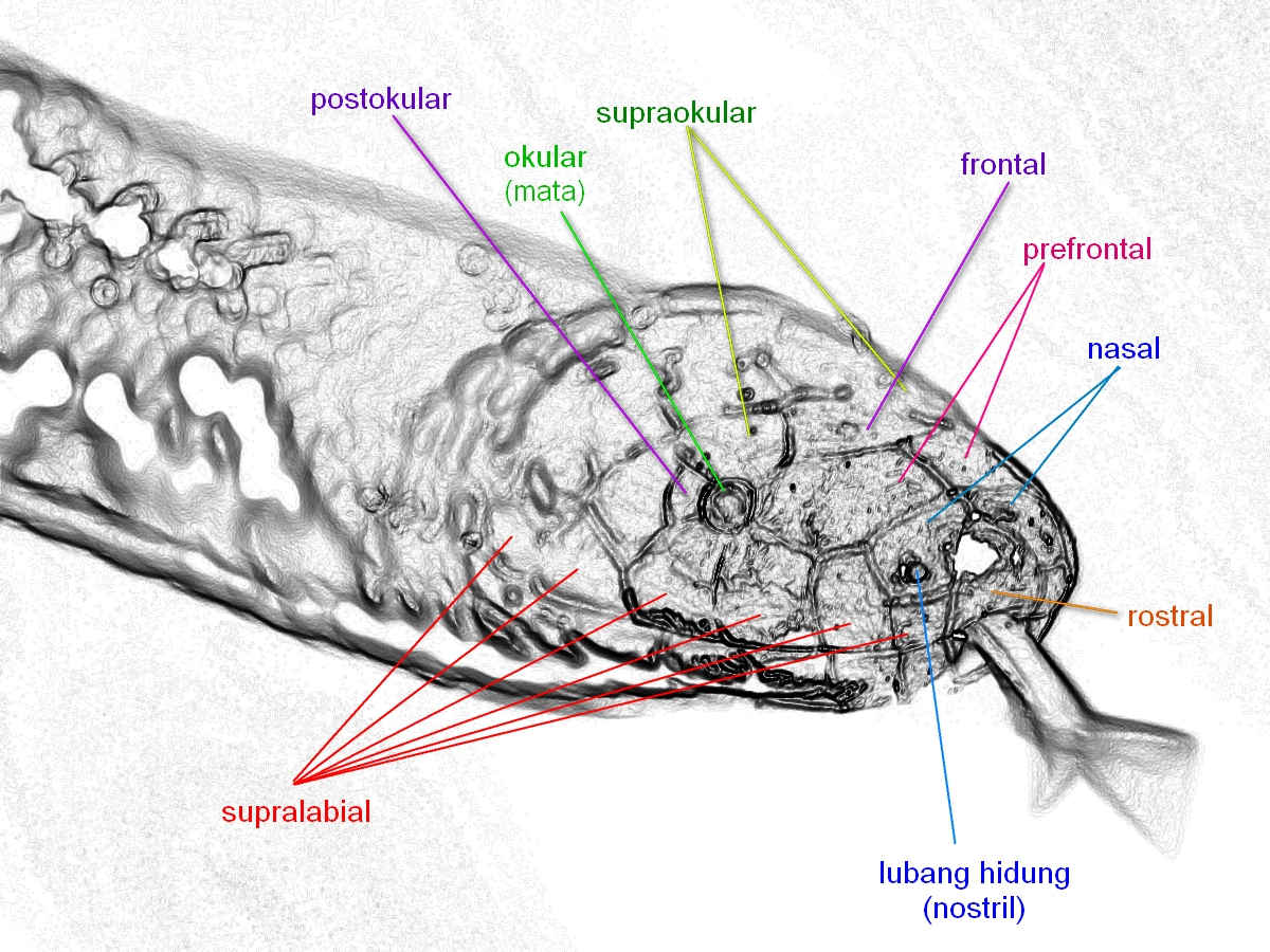 Javan pipe-snake, Cylindrophis ruffus; from Bogor, West Java, Indonesia. Head close up with sketch style, showing its head scalation.